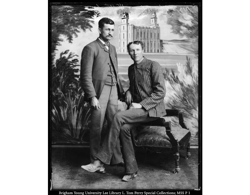 John Hafen and Walter Stringham in studio portrait by George Edward Anderson. Manti temple in the backdrop.